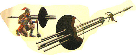 Arms of Ming army, machine gun (shoot for five bullets per time）